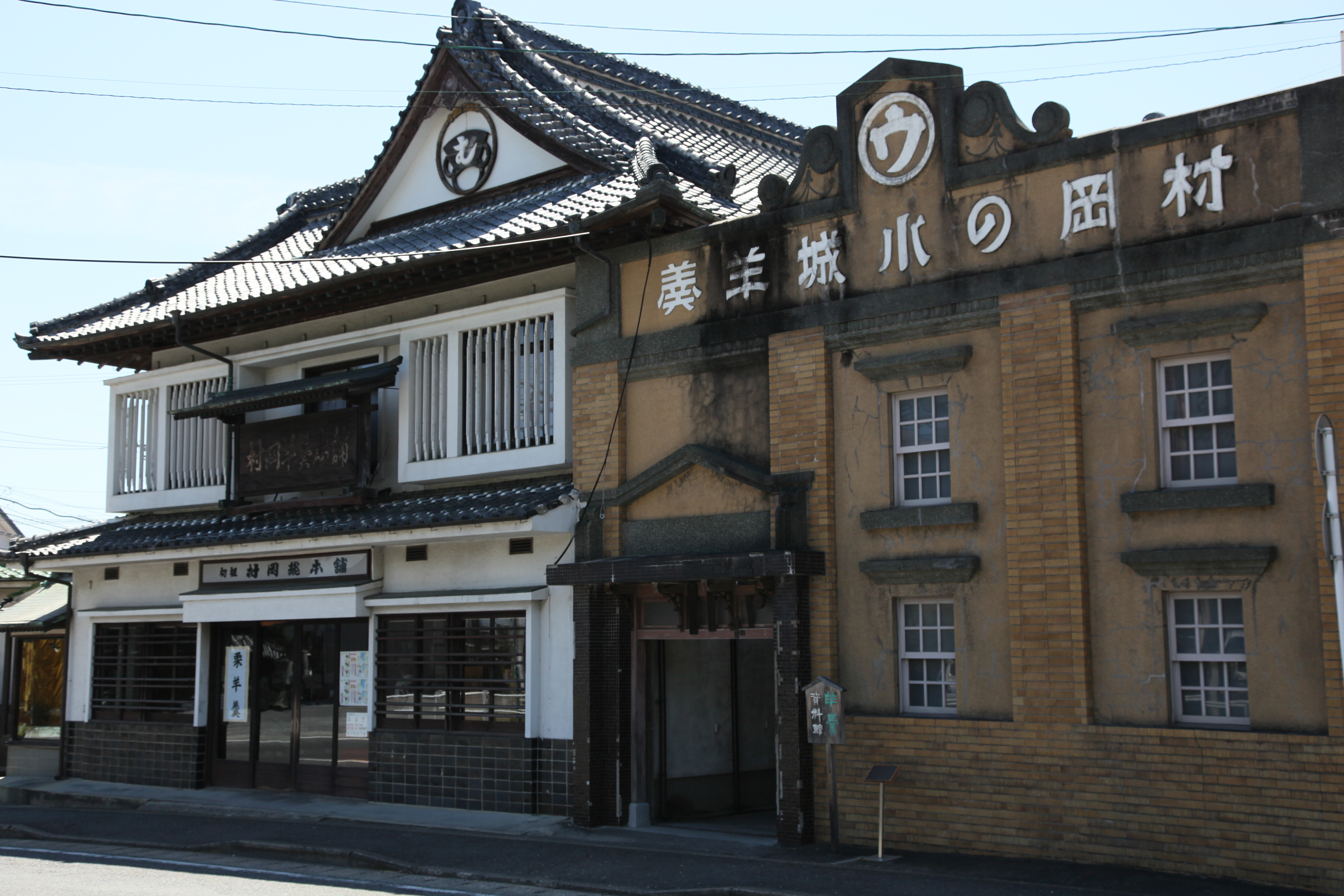 Muraokasouhonpo Ogi shop and museum, Ogi city, Saga pref., Japan.